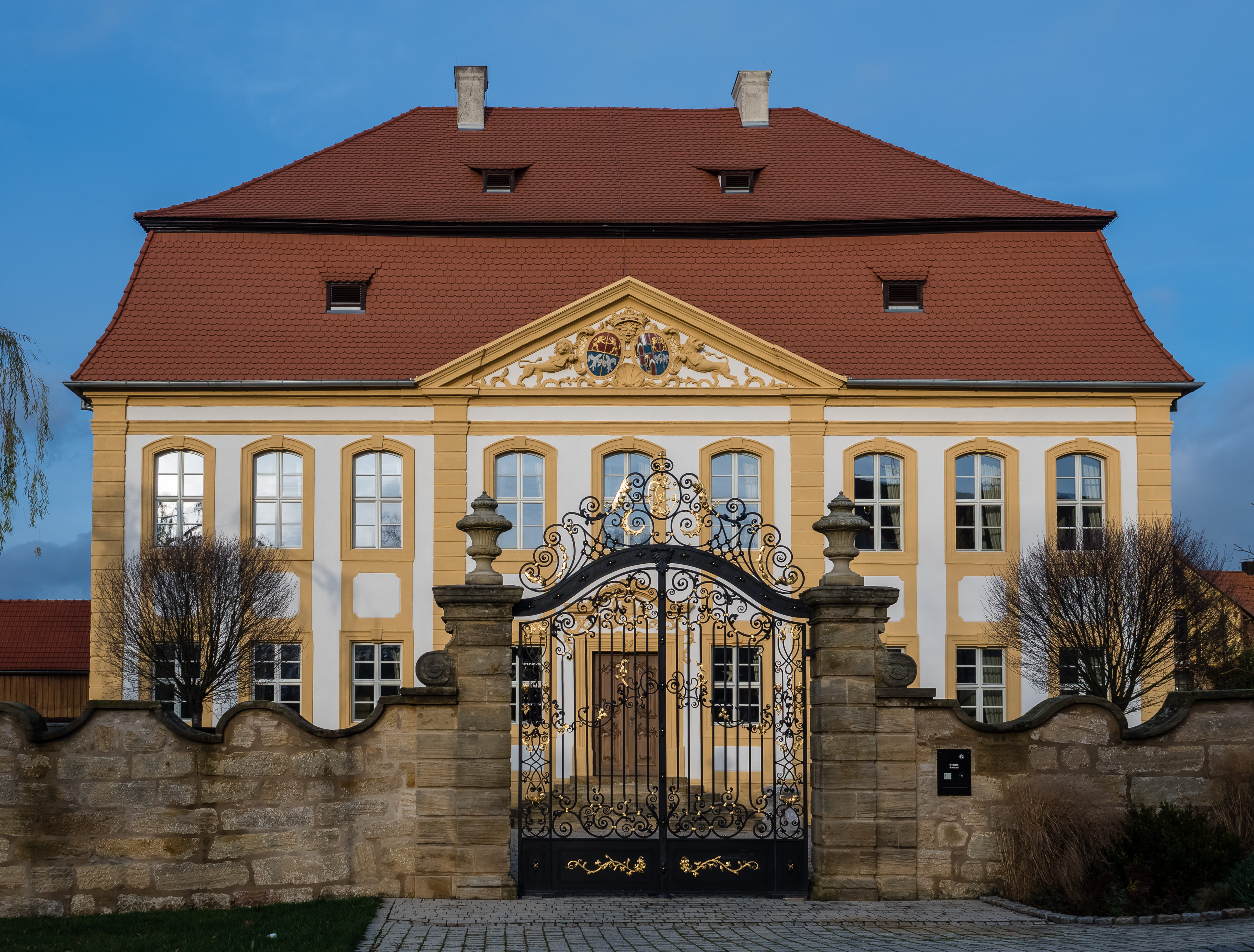 Unterleiterbach castle